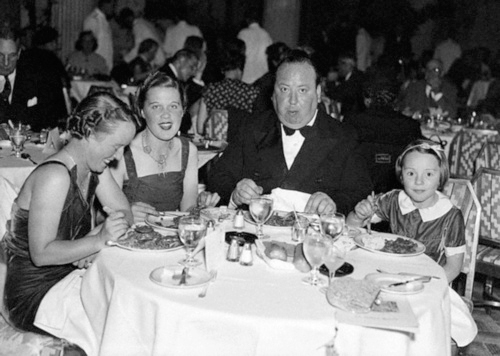 Photograph of Alma Hitchcock, Joan Harrison, Alfred Hitchcock and Patricia Hitchcock dining in an American restaurant [1]